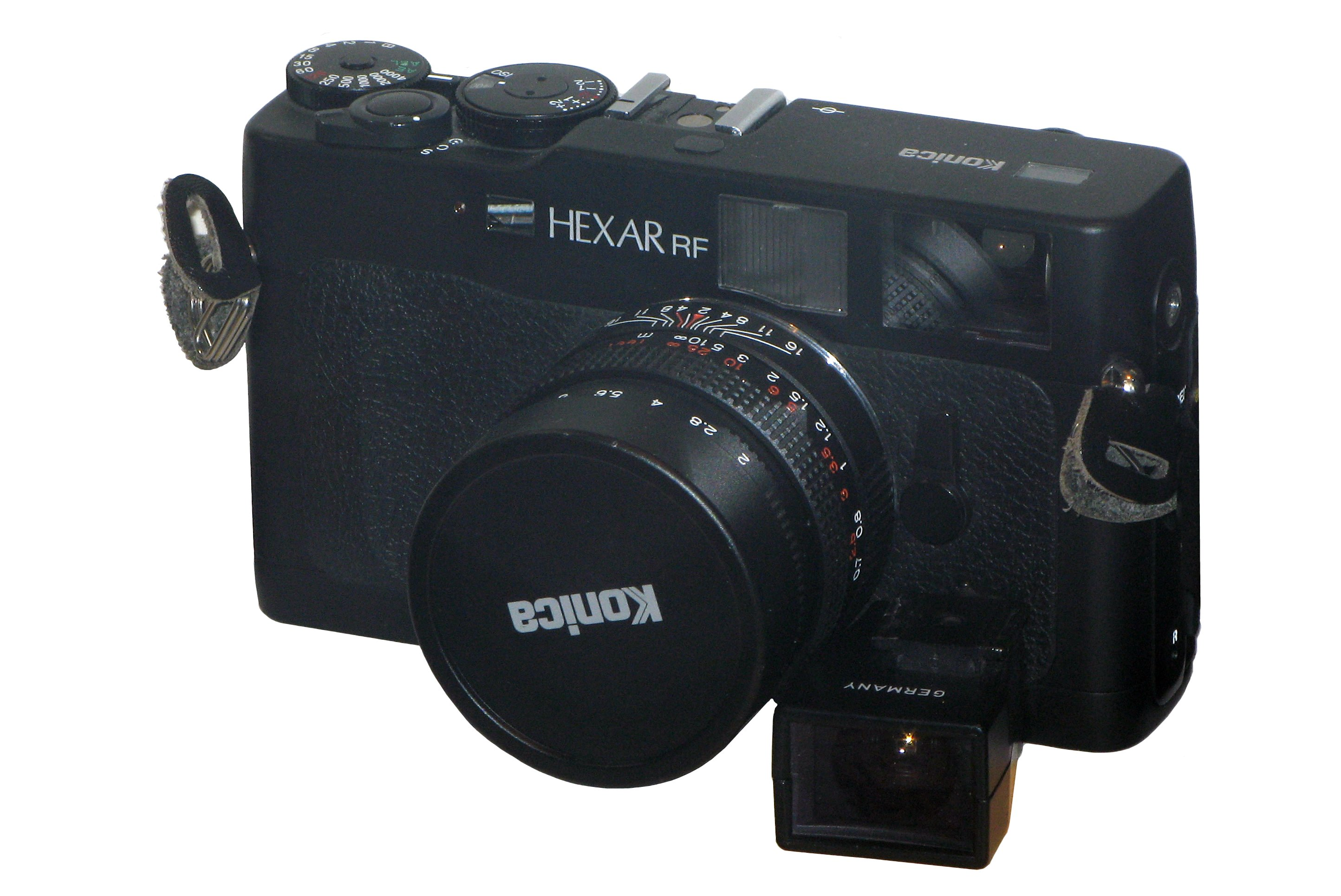 Konika Hexar RF